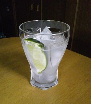 Kamikaze (cocktail)